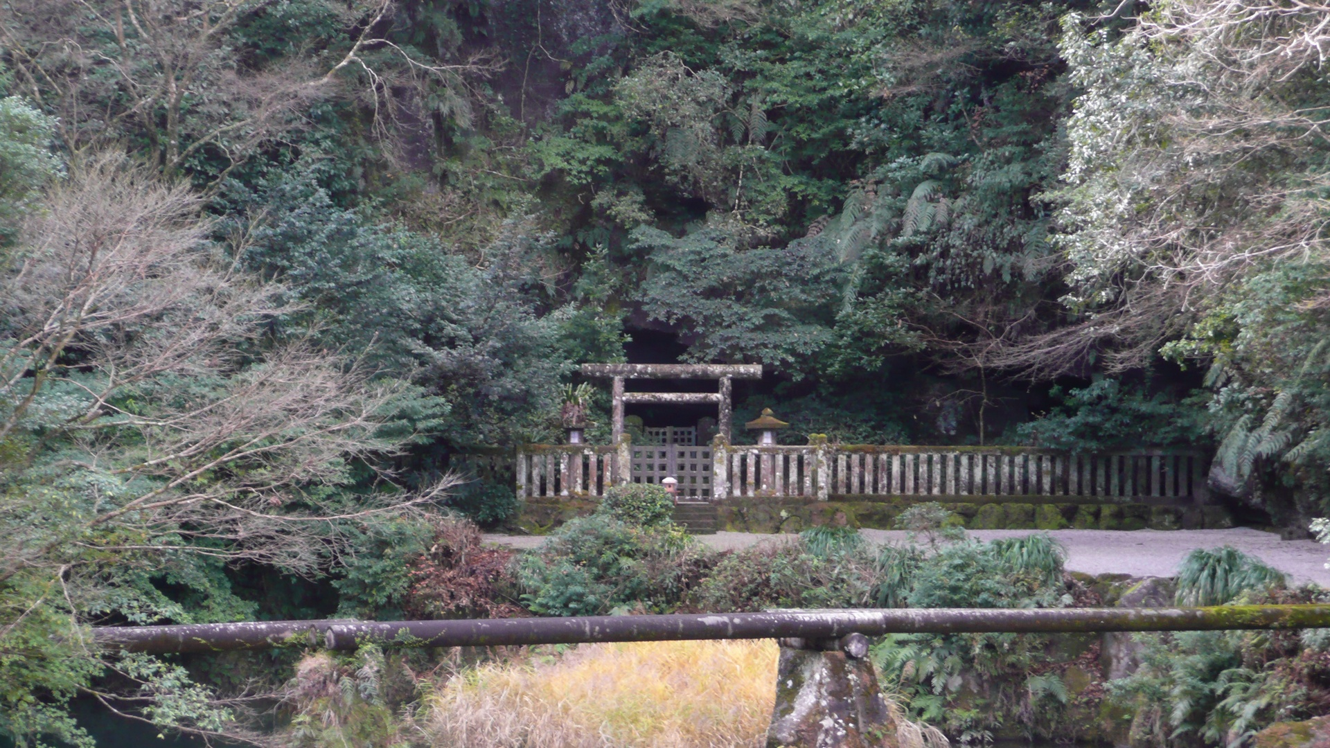 Aira Sanryo (Aira, Kanoya City, Kagoshima, Japan)